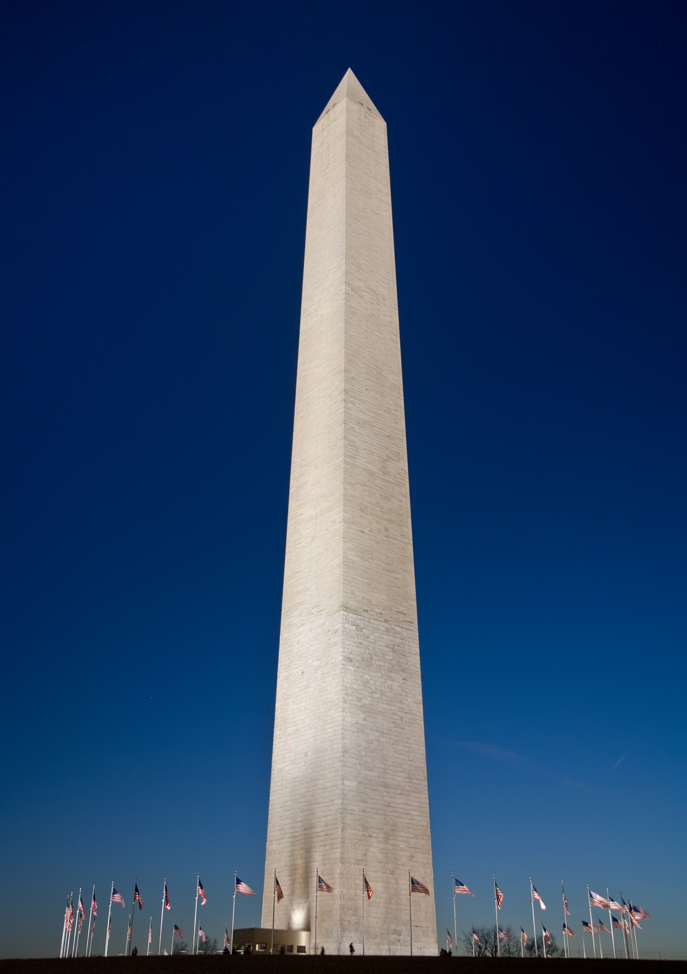 Washington Monument, Washington D.C., United States as viewed at twilight/dusk. Taken by myself with a Canon 5D and 24-105mm f/4L IS lens.